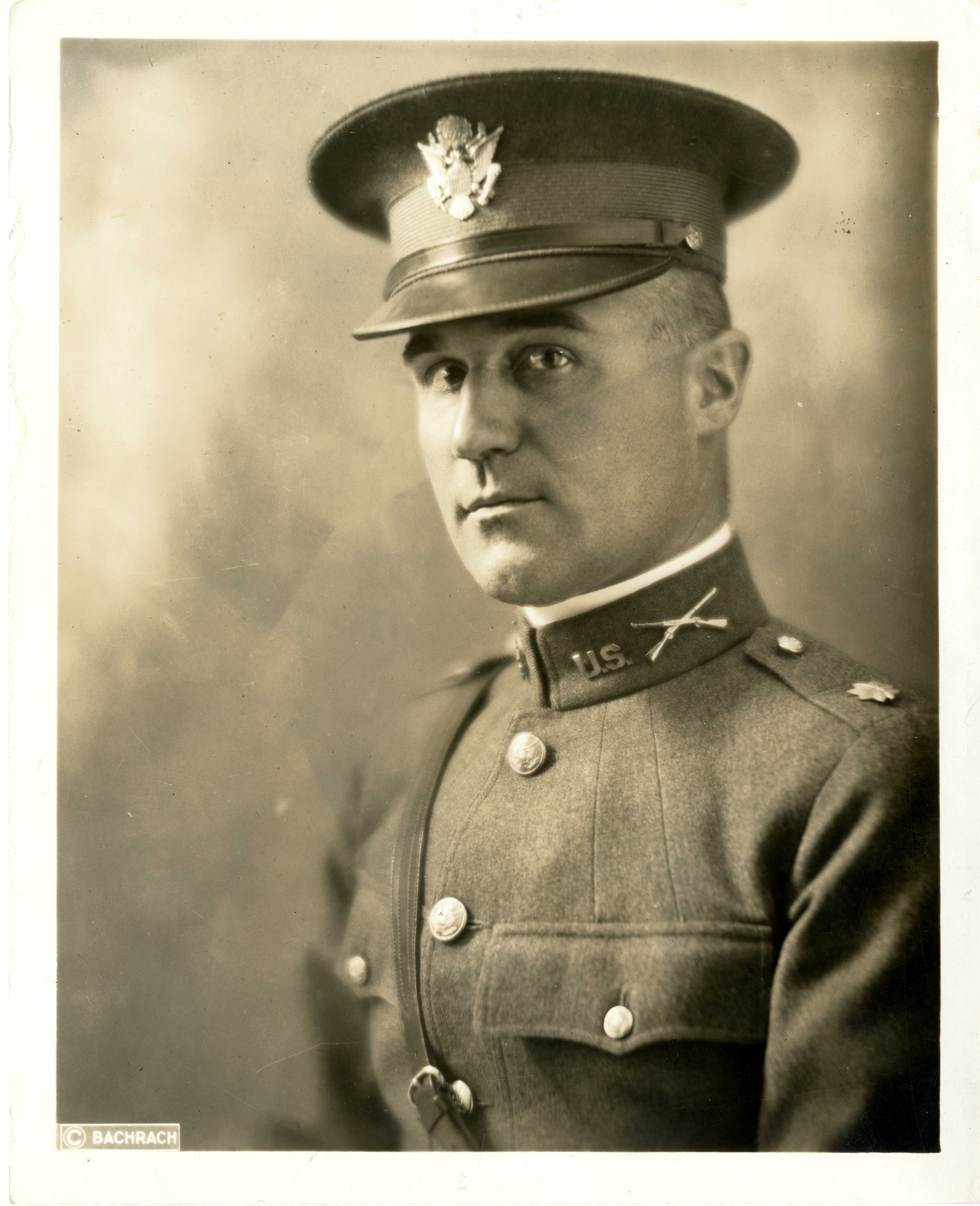 Gregory Hoisington (c. 35 years of age).